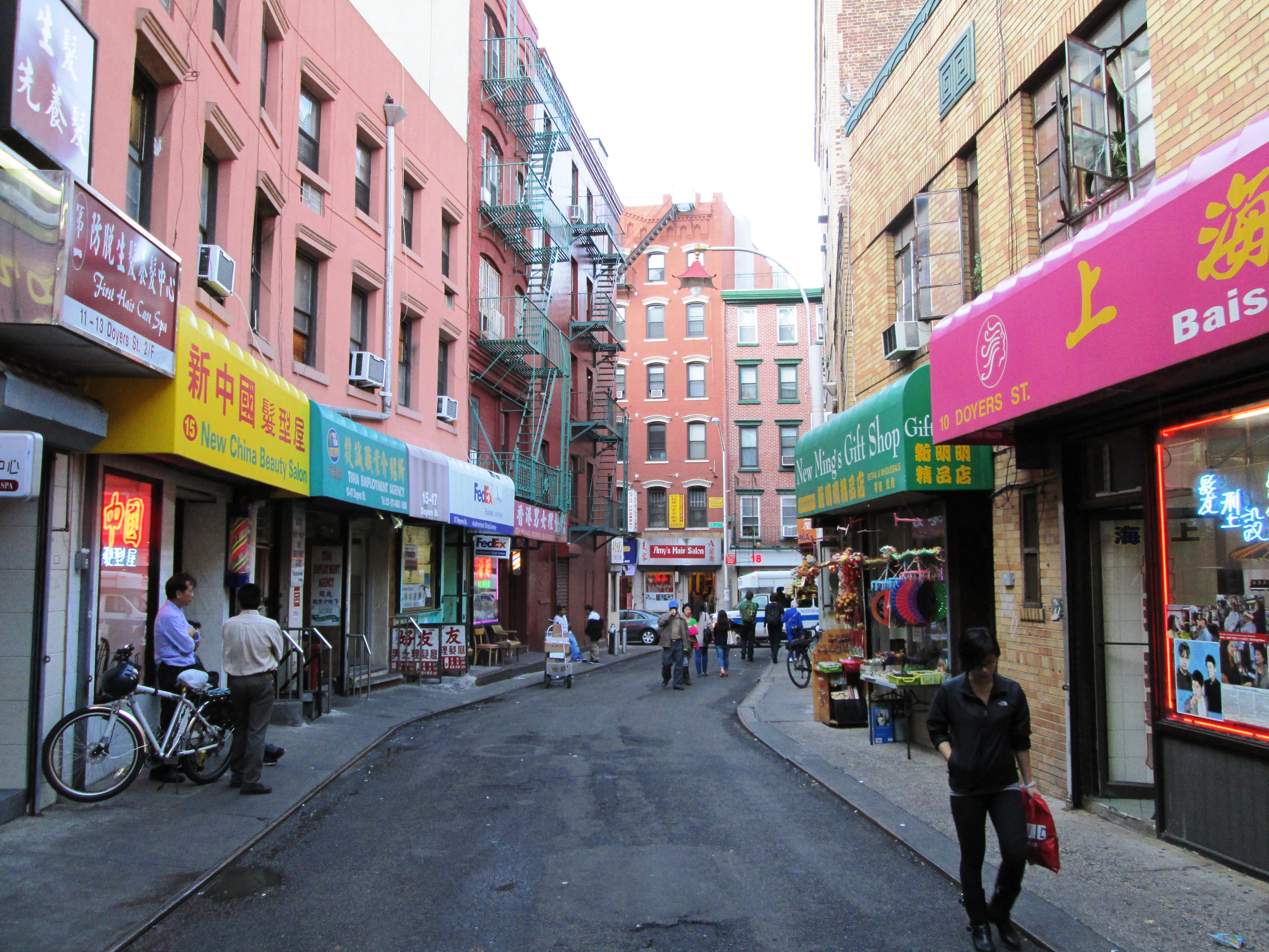 Doyers Street in Chinatown, between the Bowery and Pell Street